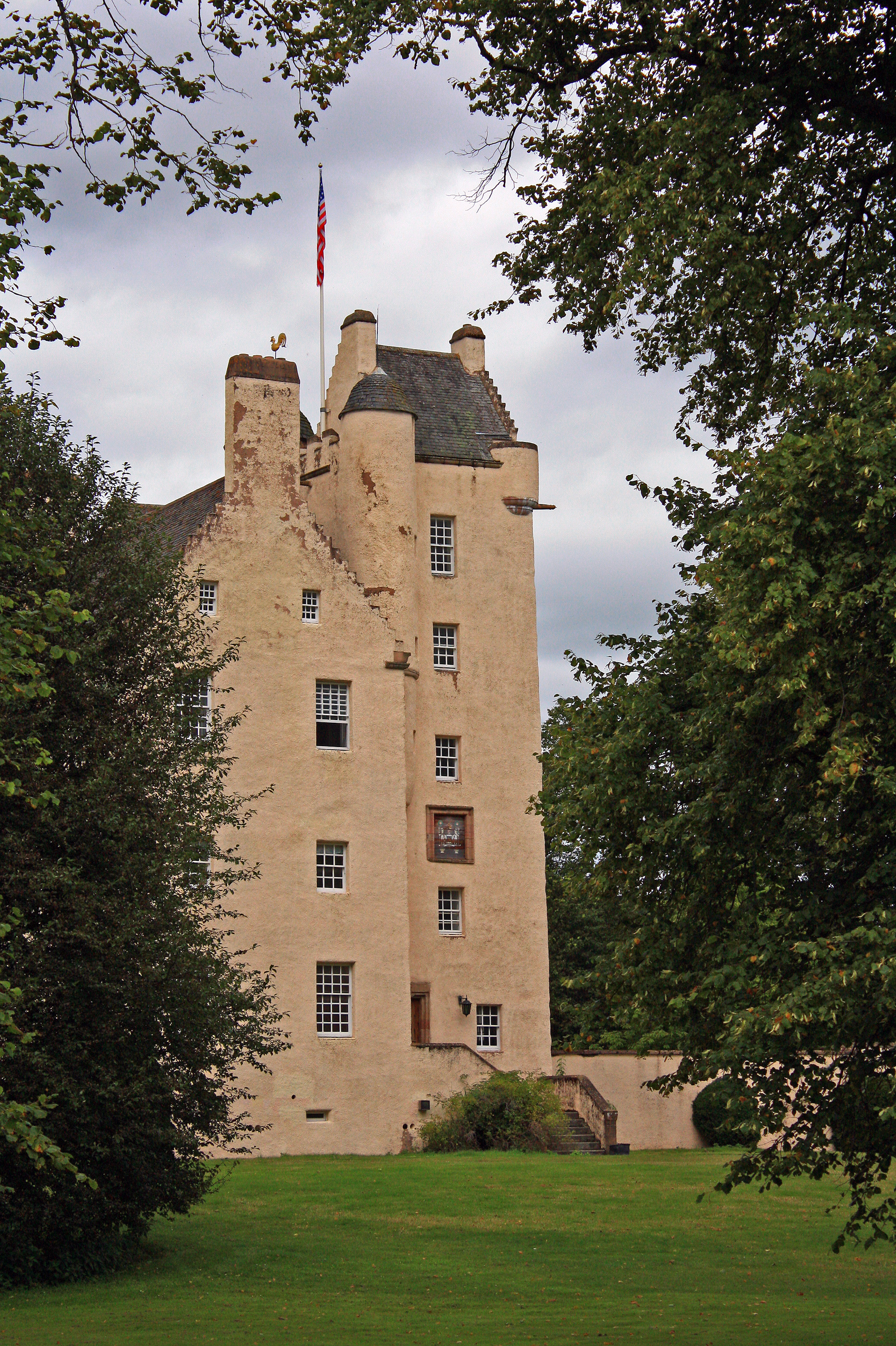 Aboyne Castle